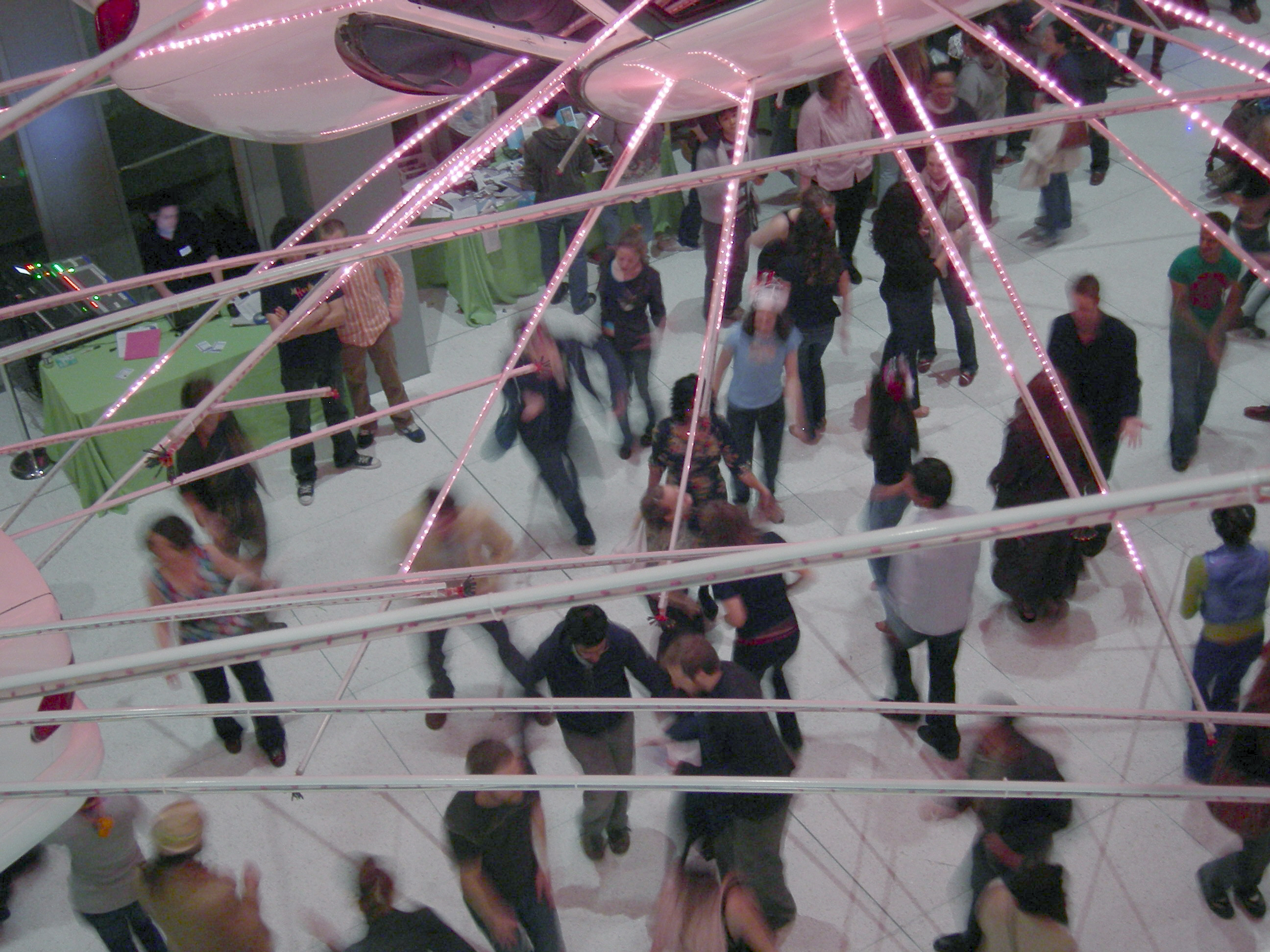 Dancing at an all-night party in the lobby of the Seattle Art Museum, Seattle, Washington, as part of the celebration of the re-opening of the expanded museum. The cars are part of an art installation by Cai Guo-Qiang.